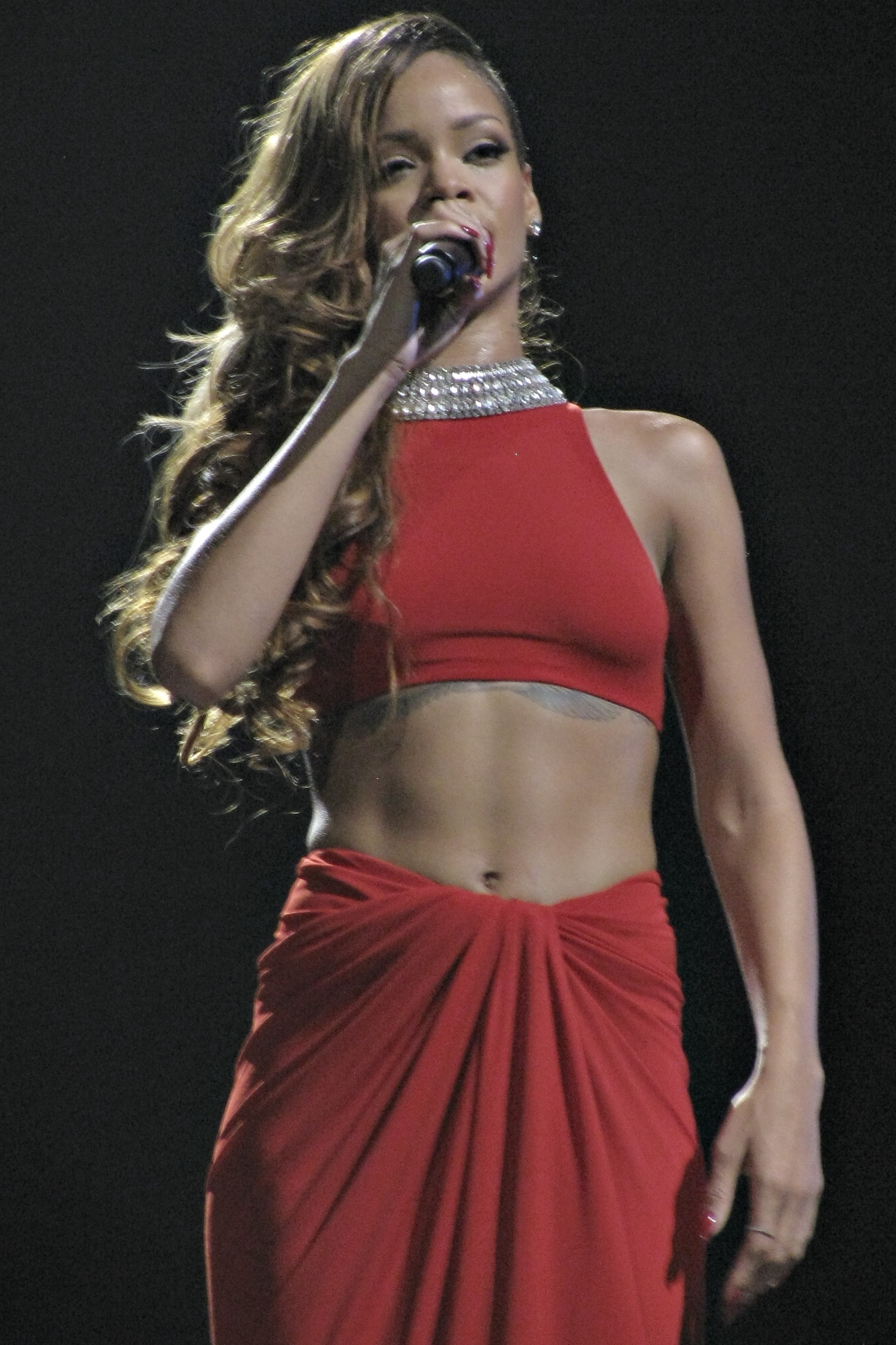 Rihanna performing Diamonds World Tour at the Air Canada Centre, 19 March 2013.